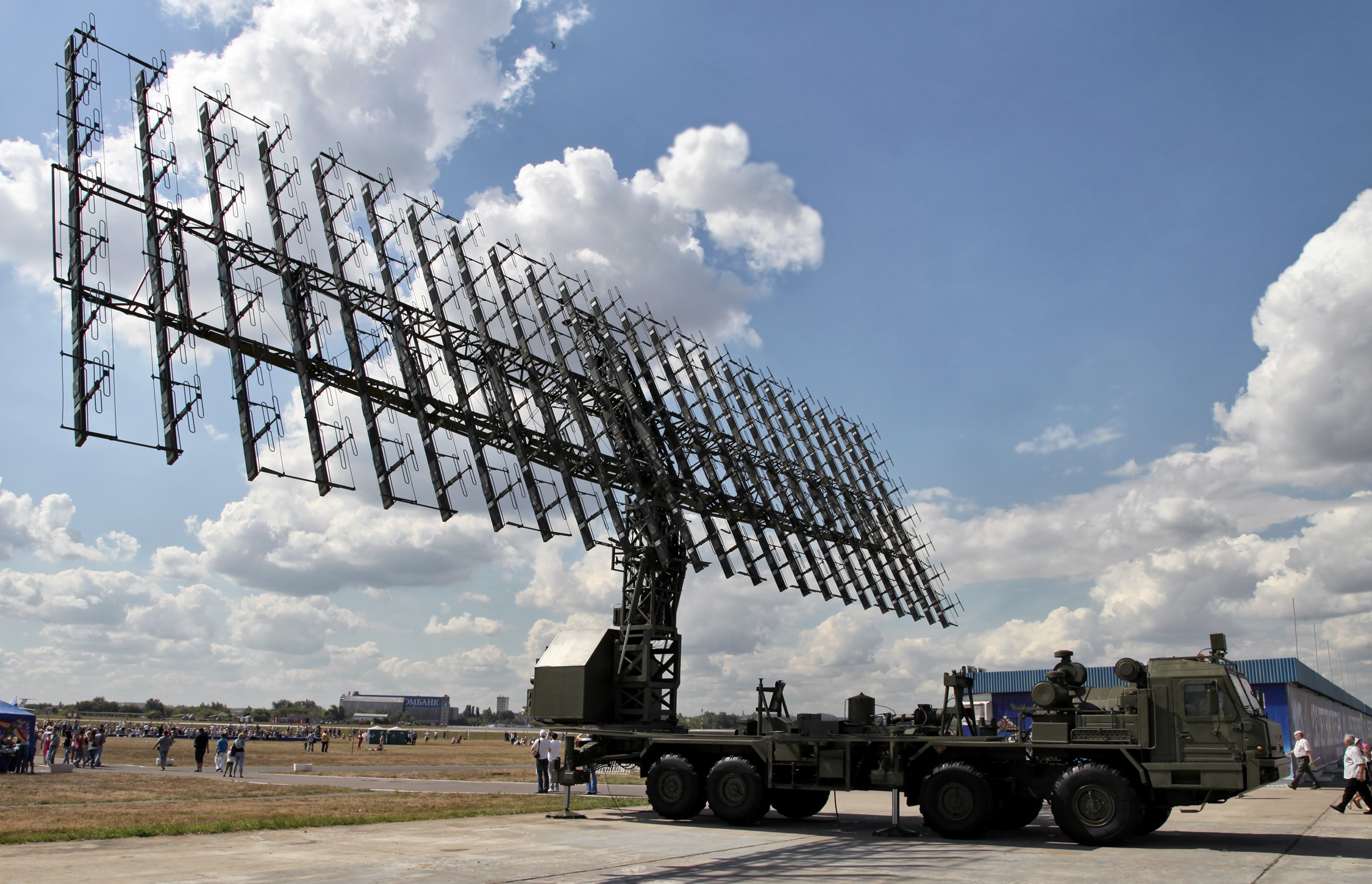 The Nebo M, a Russian air defense radar mounted on a mobile trailer, shown in a display at the 100th anniversary of the Russian Air Force. The antenna consists of an array of 175 folded dipoles.